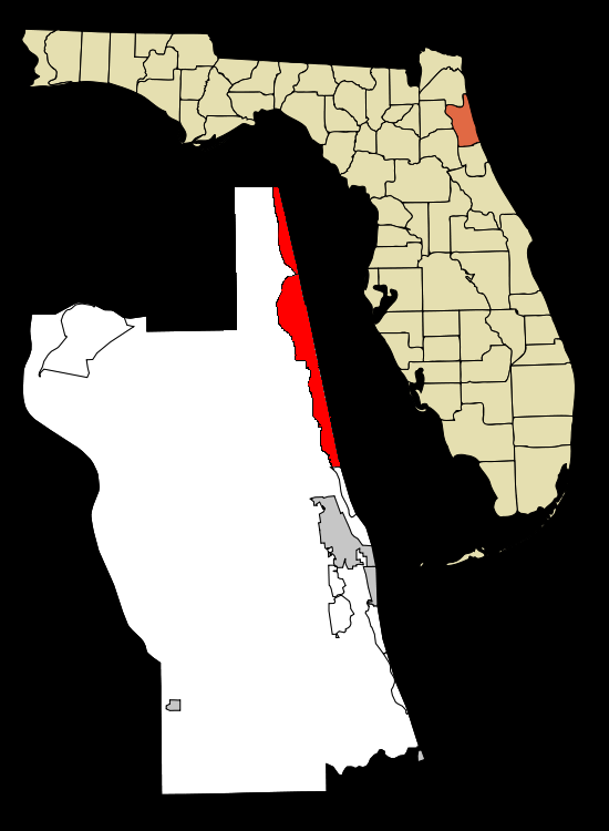 This map shows the incorporated and unincorporated areas in St. Johns County, Florida, highlighting Ponte Vedra Beach in red. It was created with a custom script with US Census Bureau data and modified with Inkscape.